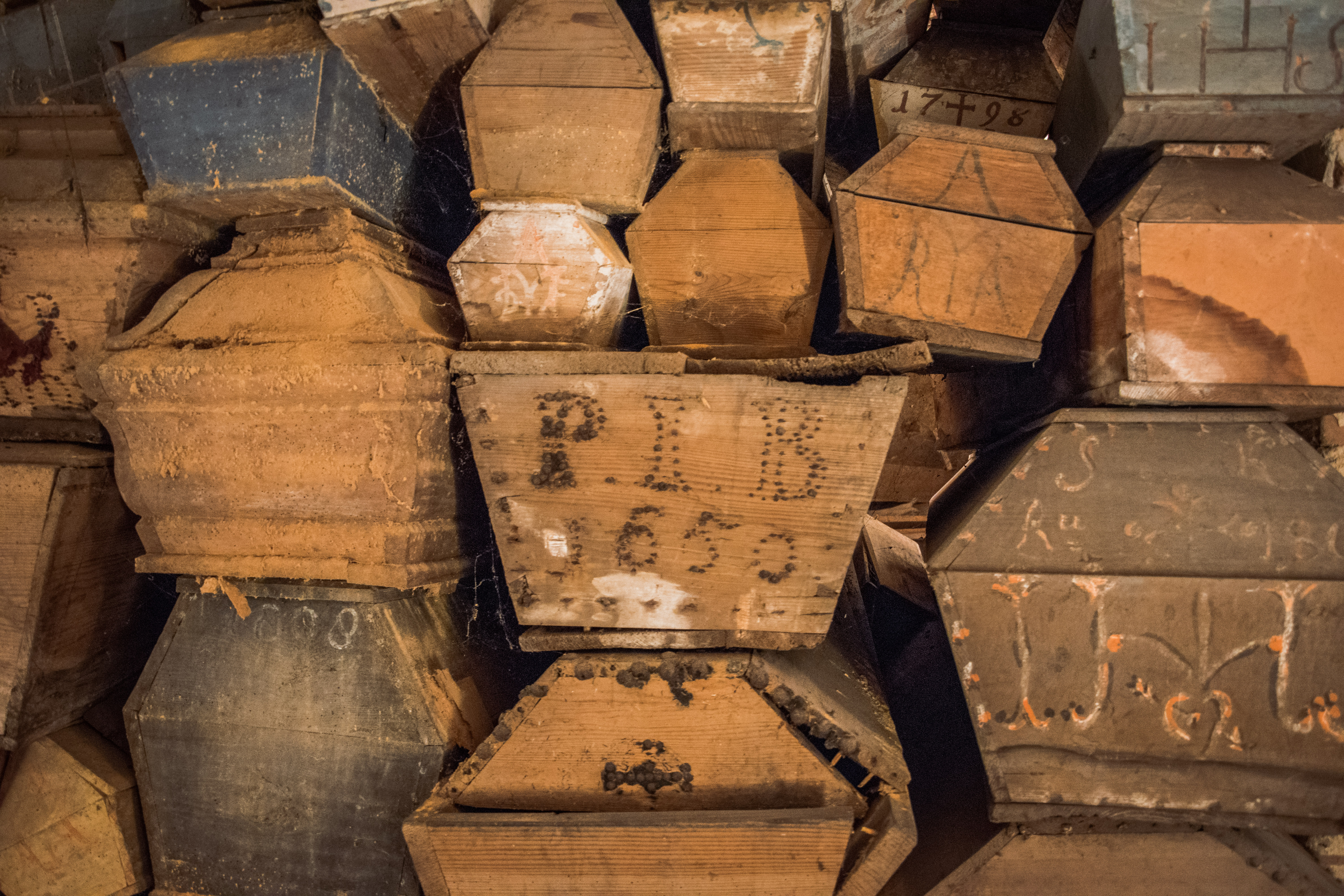 Coffins of Jesuit serving, church benefactors and honorable personalities, located in the crypts of the Jesuit College in Rawa Mazowiecka.